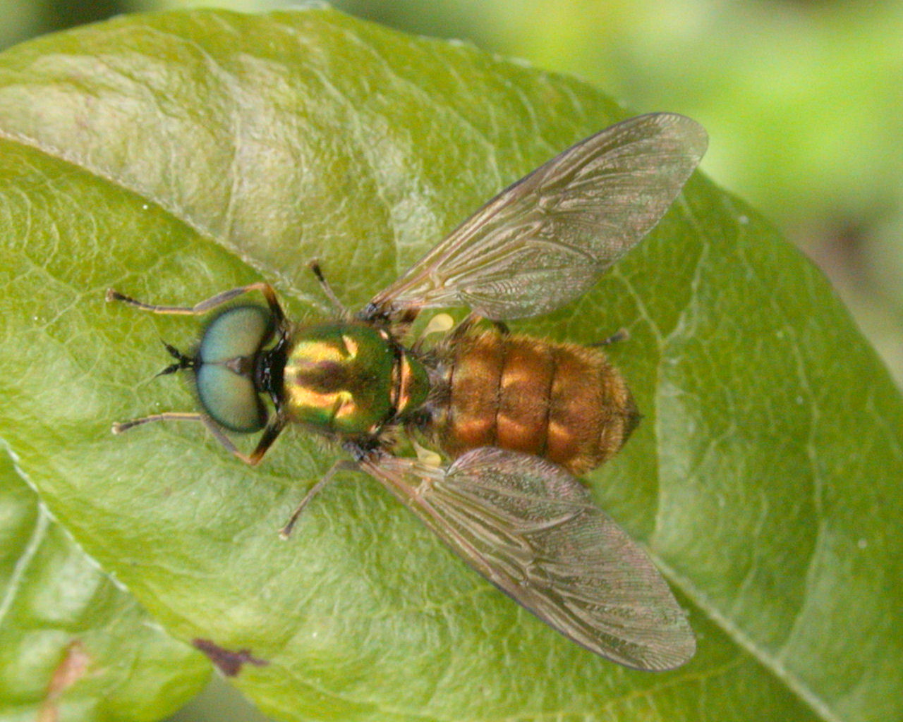 Chloromyia formosa, Cambridge, England